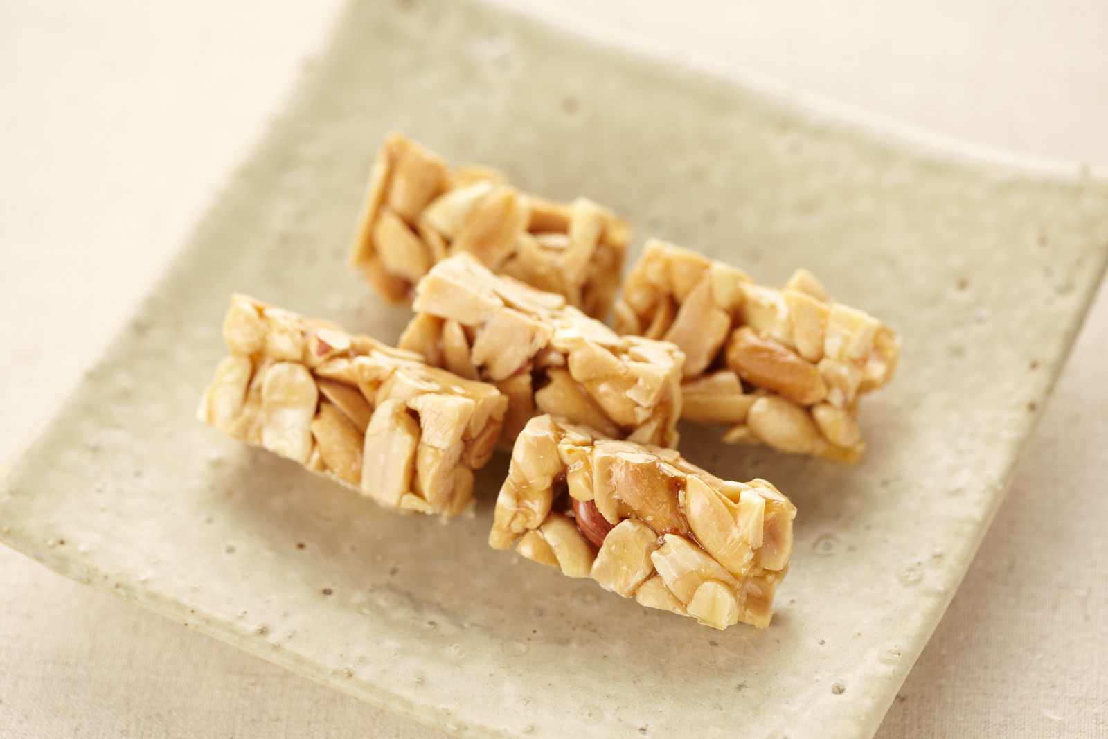 Ttangkonggangjeong (peanut gangjeong)